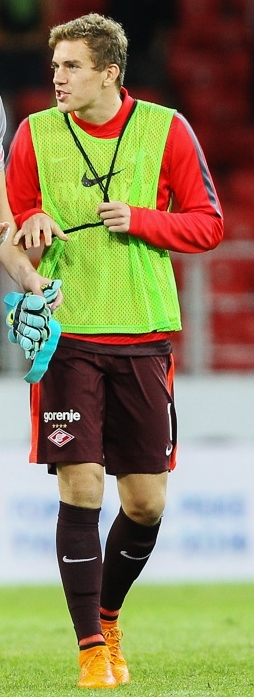 Anton Mitryushkin